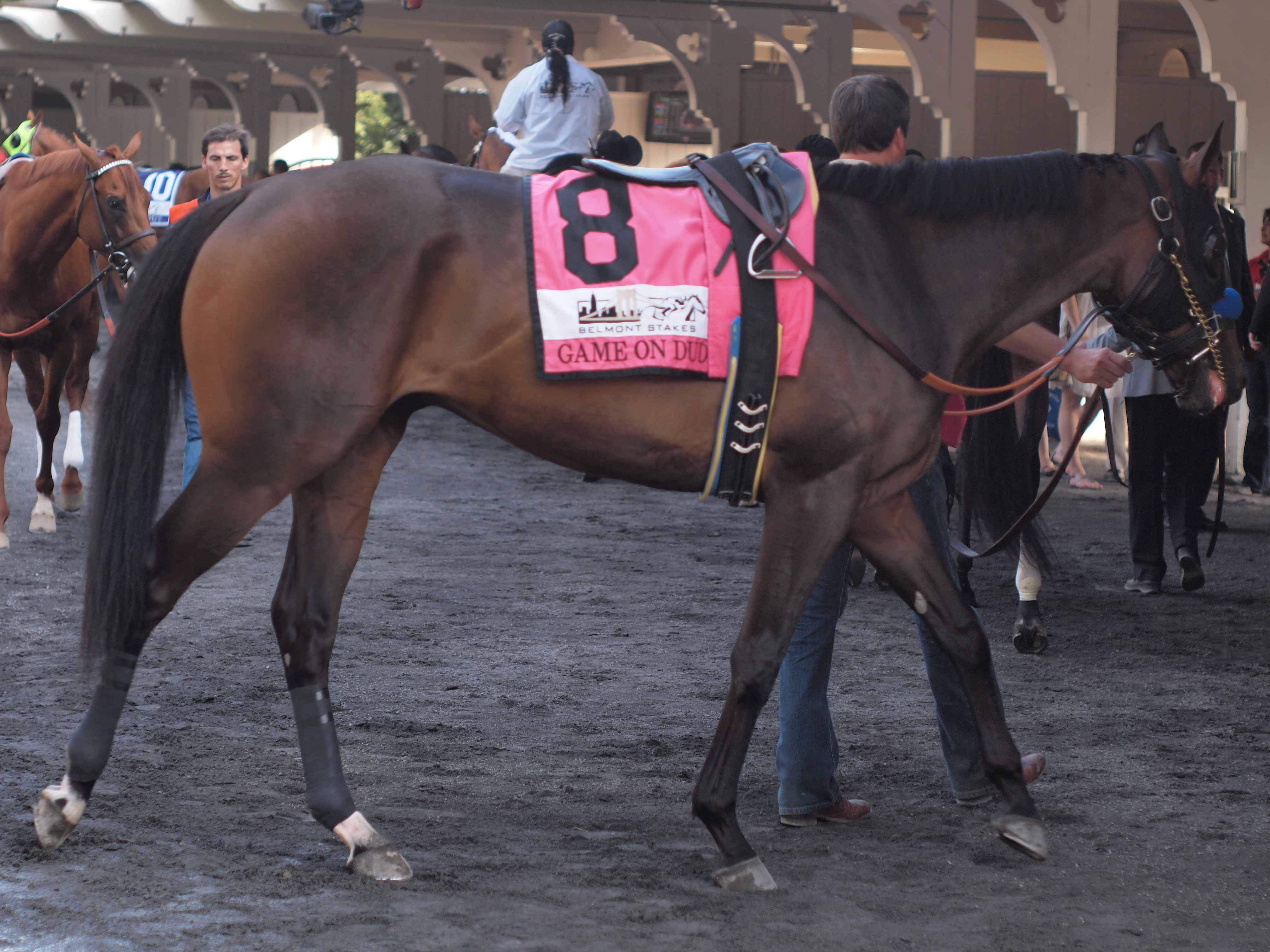 Images taken at Belmont Park on Belmont Stakes day, June 5, 2010